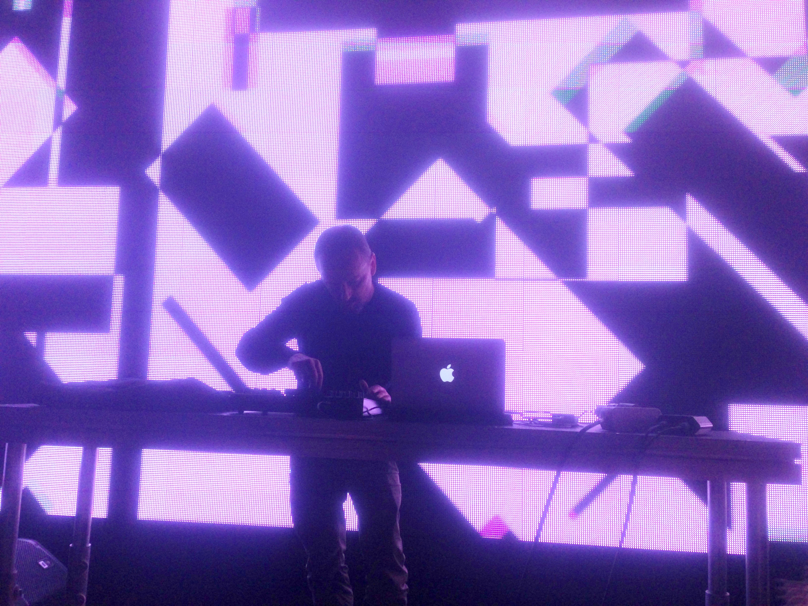 Mark Bell who went by the stage name LFO playing his last Russian concert at Arma 17 on 30 March, 2013.